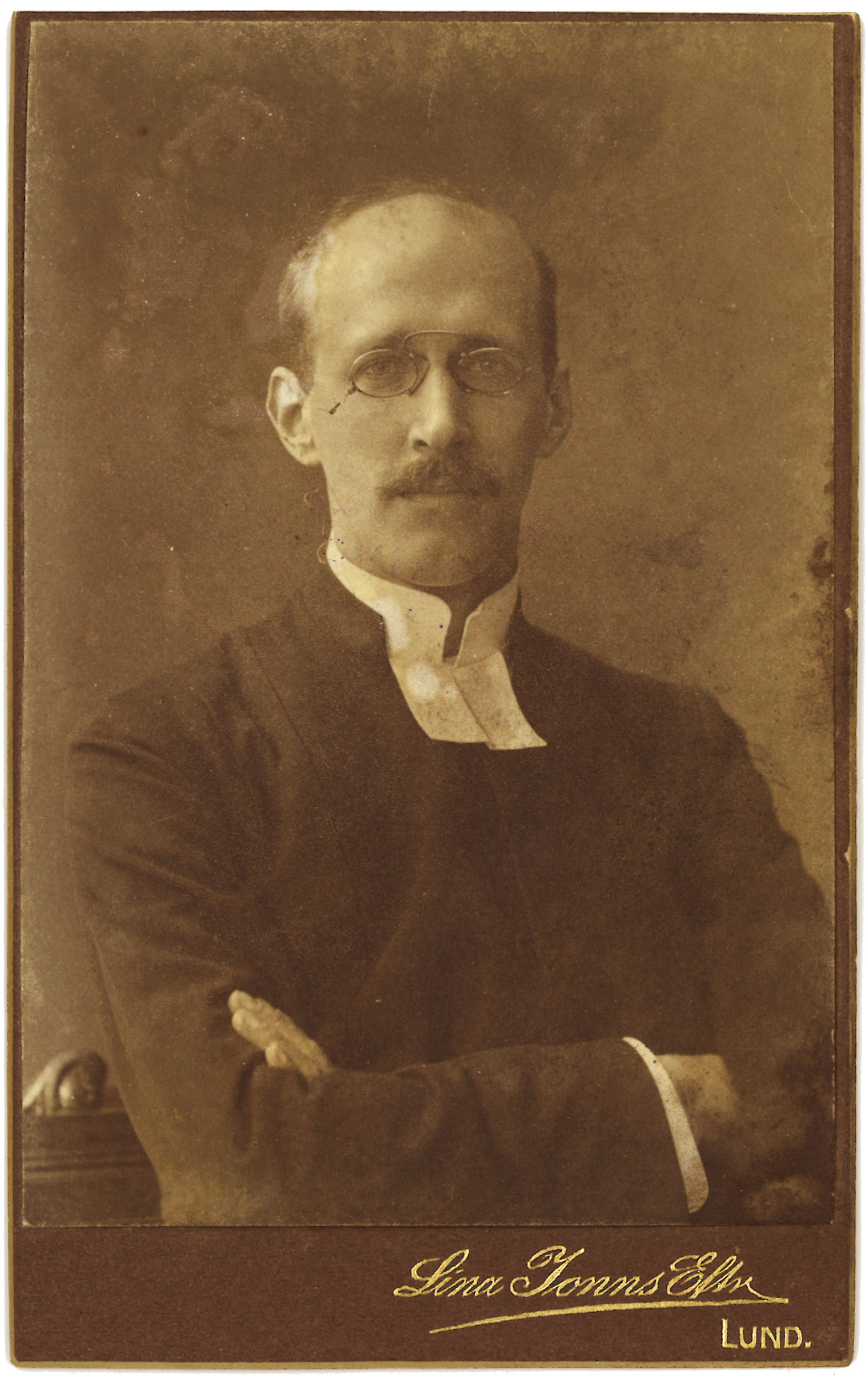 Edvard Magnus Rodhe (1878-1954), Swedish theologian, professor and bishop of Lund 1925-1948.